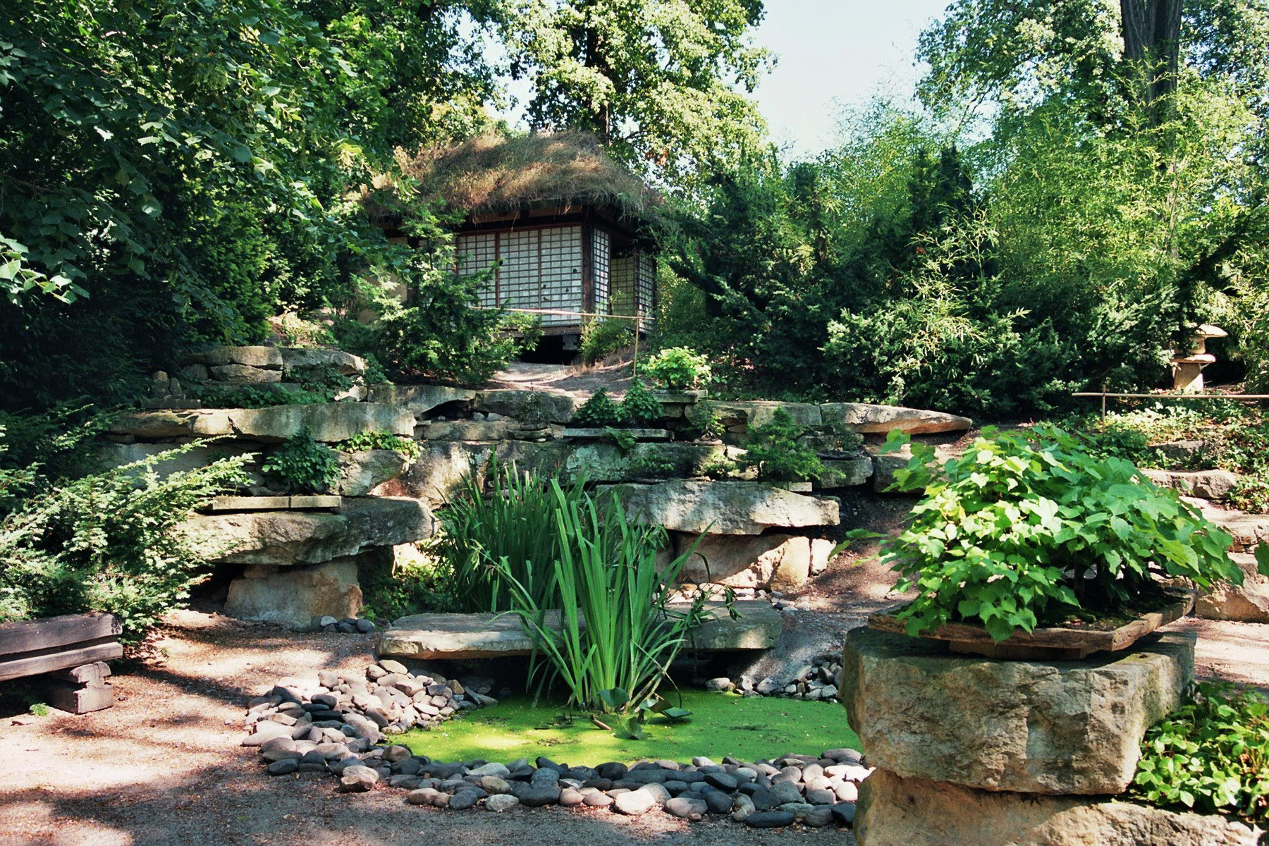 This image shows the garden of Zuschendorf castle in Pirna in Saxony, Germany.